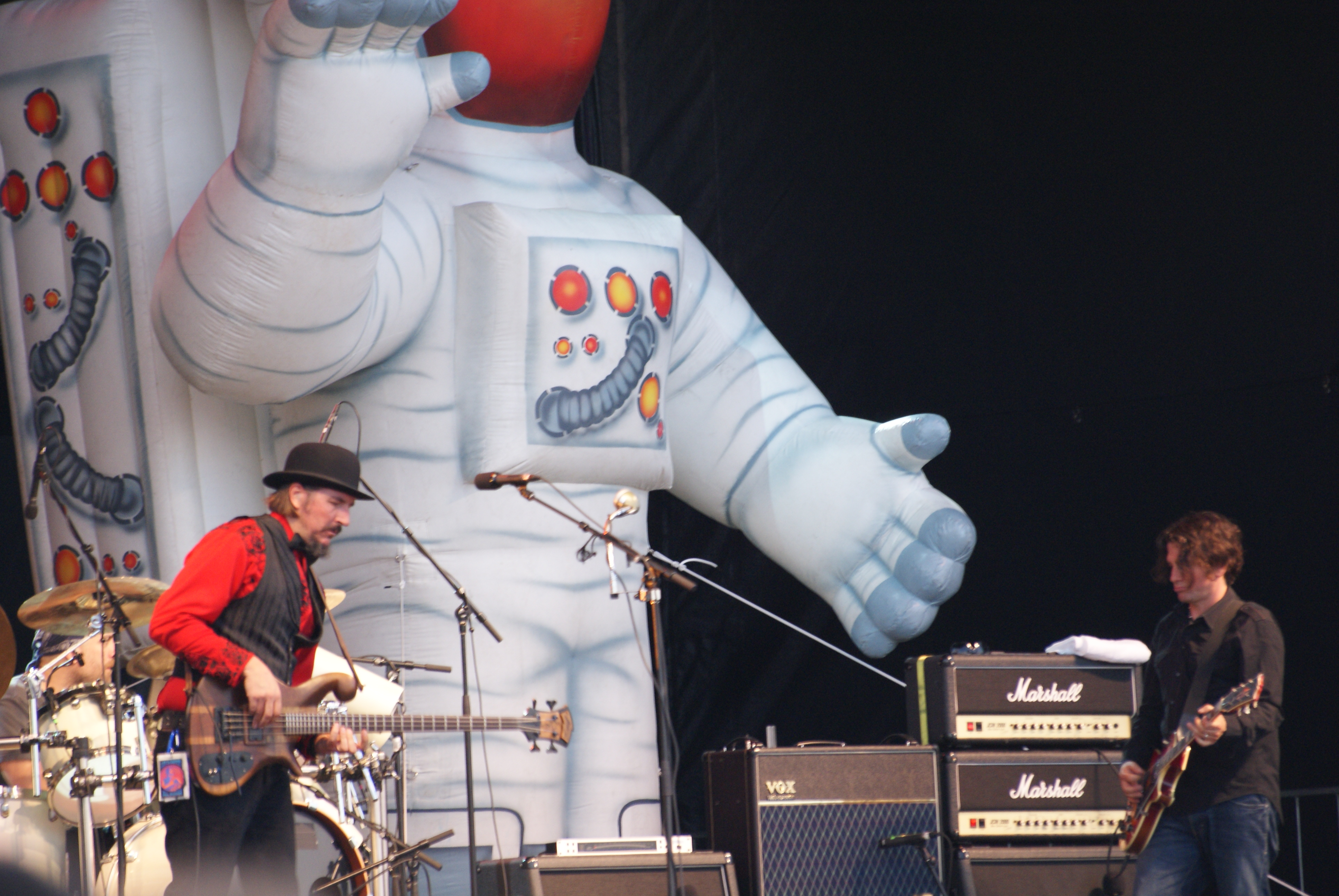 Primus live at the 2008 Bluesfest in Ottawa, Ontario. Tim Alexander (left) Les Claypool (center) and Larry Lalonde (right).